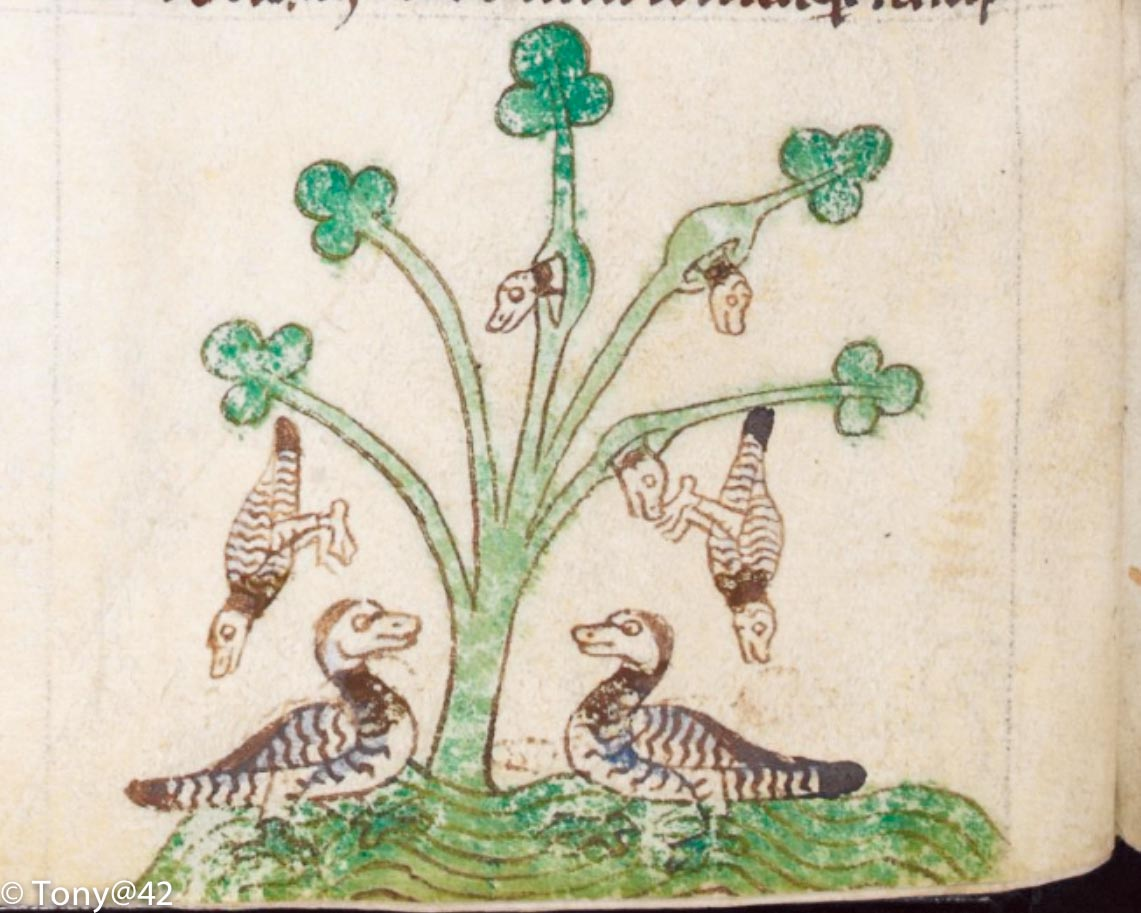 Drawing from a 12th C. manuscript on Ireland by Gerald of Wales.